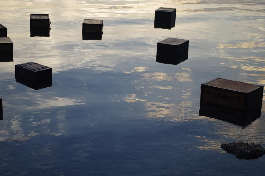 Nina Dotti character, Panama Performance